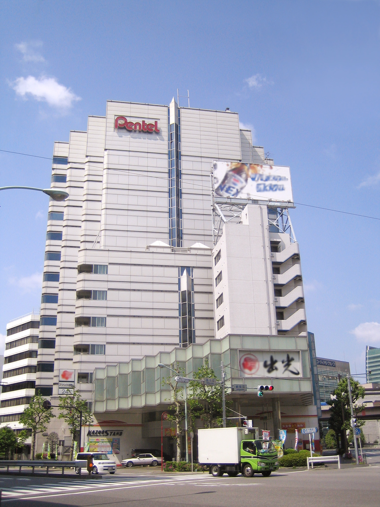 Pentel Co., Ltd. (ぺんてる株式会社), at Chuo, Tokyo, Japan